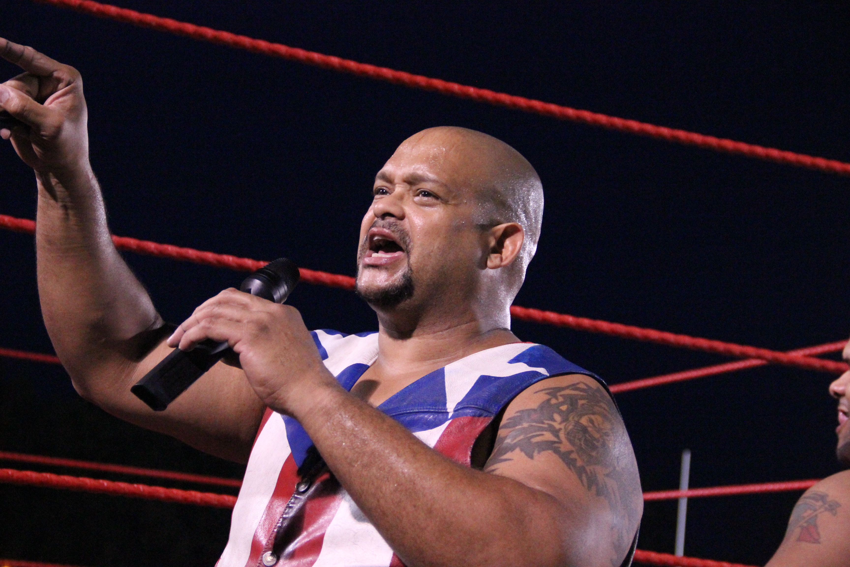 Professional wrestler Savio Vega speaks in June 2013.